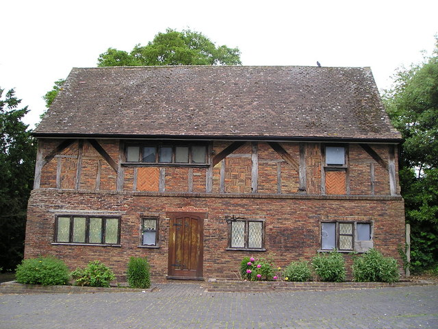 Eastcote House This ancient brick and timber building may have been the lodge of the original house. I was intrigued by the variety of ways in which the bricks had been laid between the timbers of the upper storey.